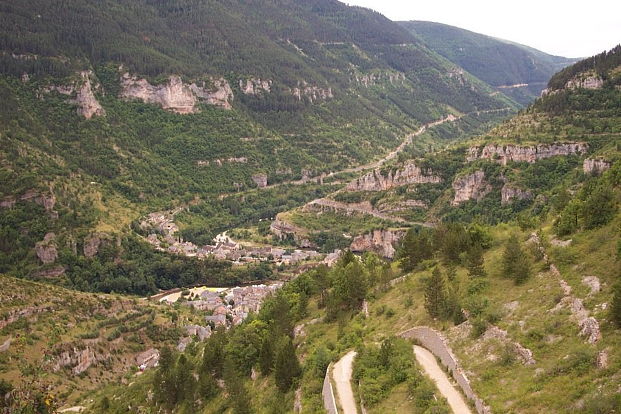 The town of Sainte-Enimie and the Gorges du Tarn canyon.